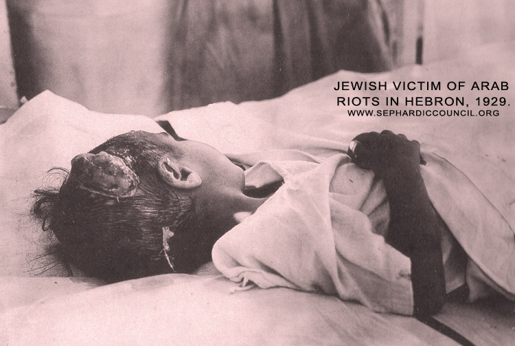 Jewish child victim of Arab riots in Hebron, 1929.